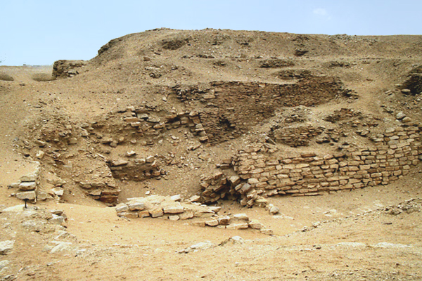 Pyramid of Sekhemkhet or Djoserty at Saqqara